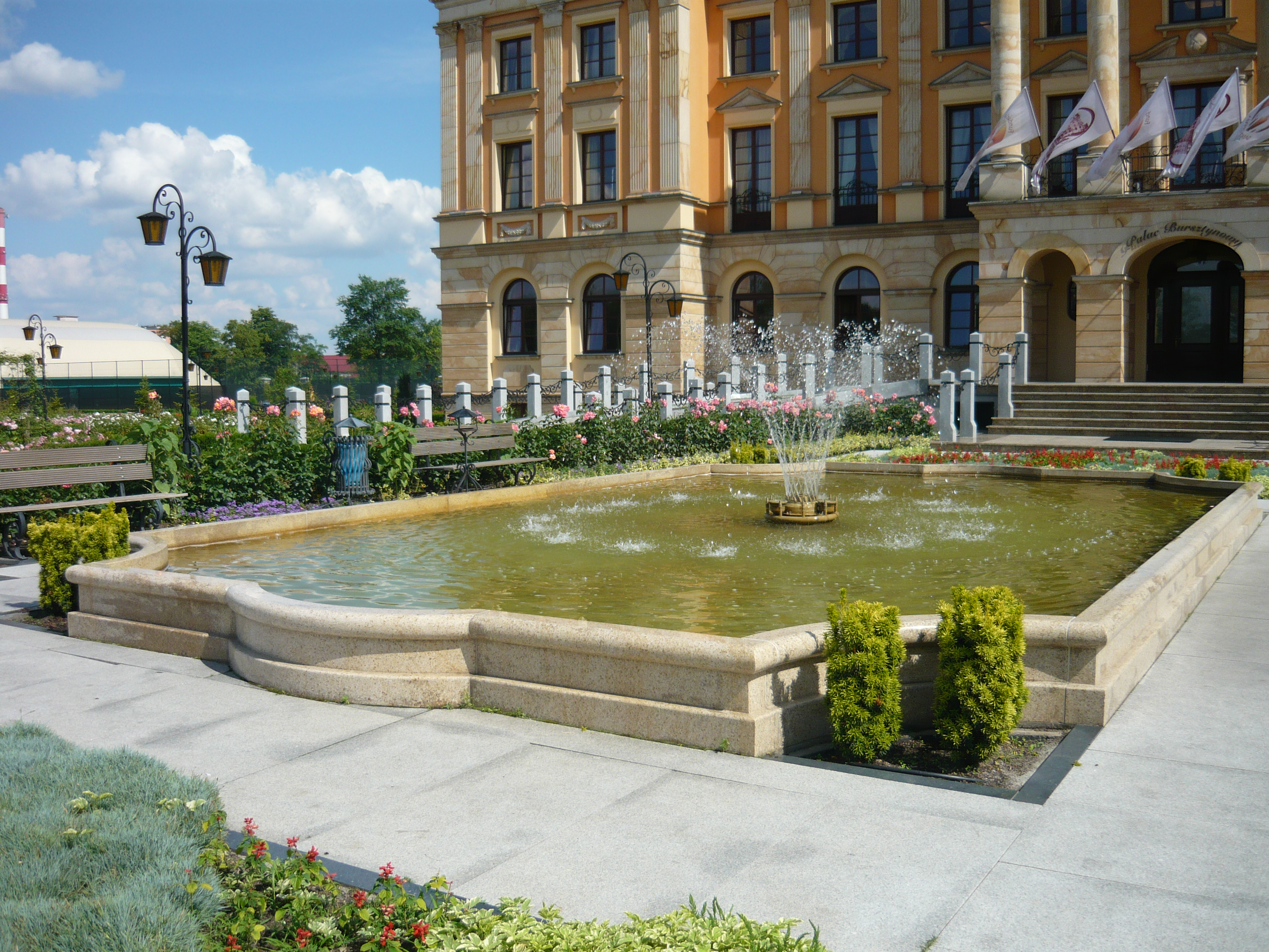 The fontain in front of the Amber Palace in Włocławek.